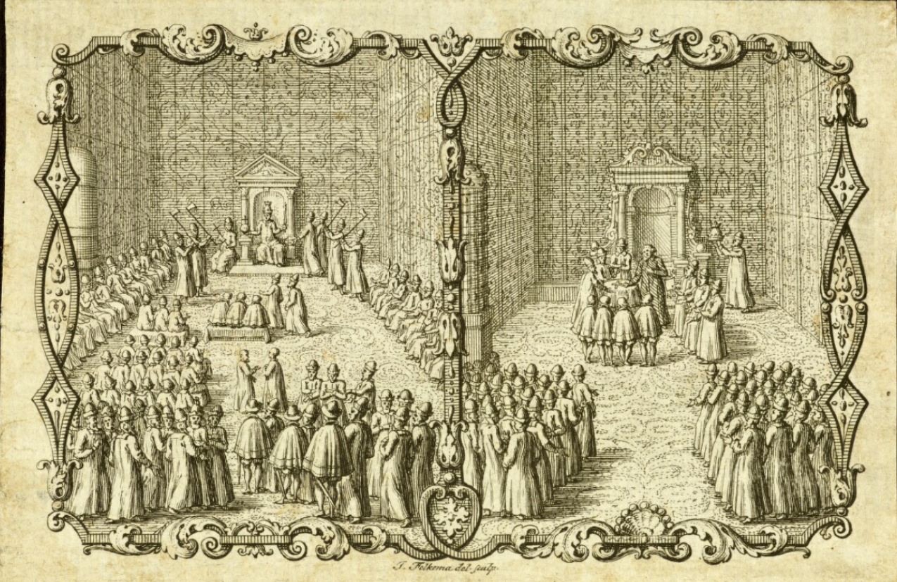 Jacob Ulfeldts Audiens hos Czaren in 1578